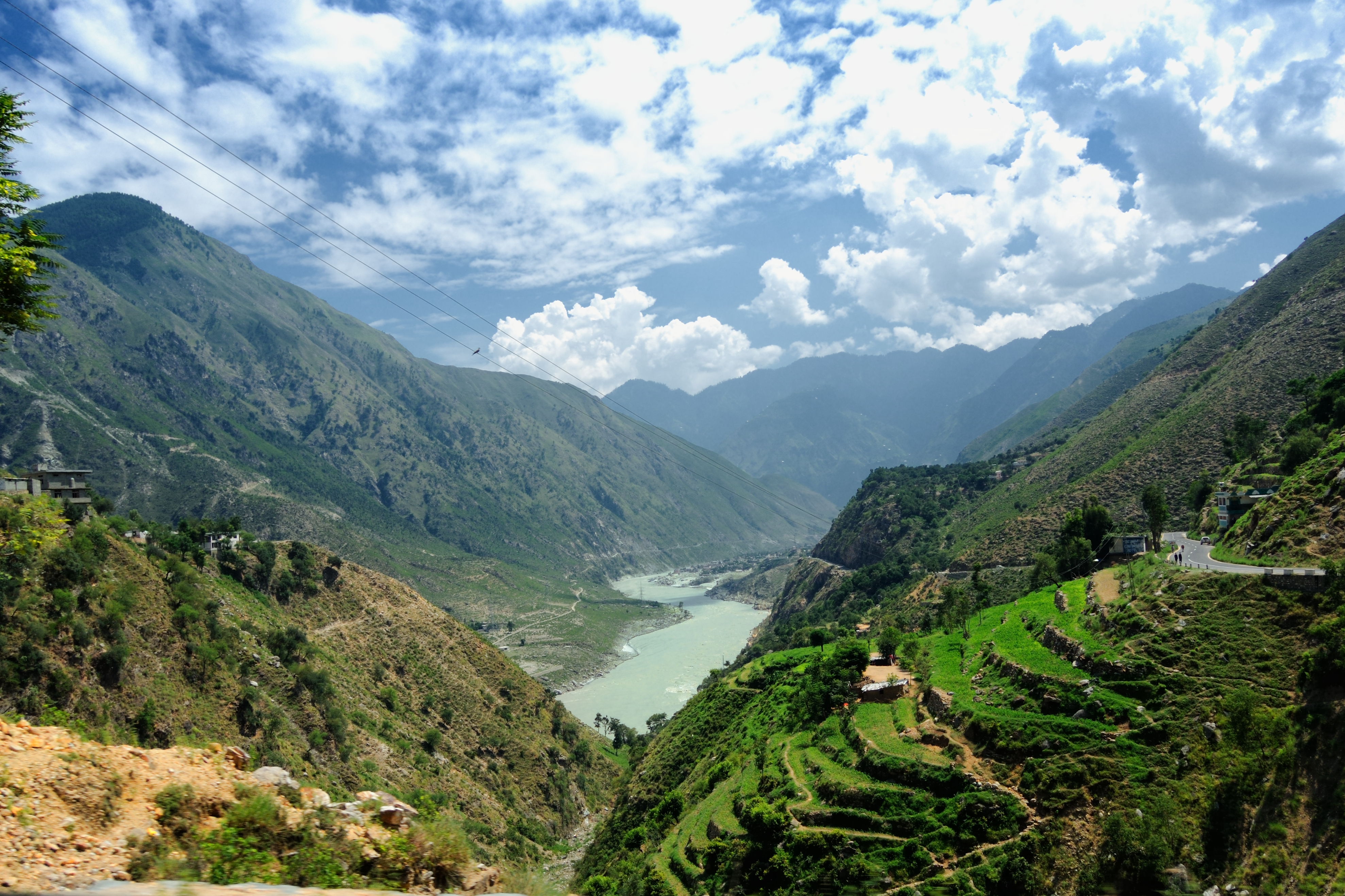 Indus Valley from the Karakoram Highway, north of Besham (Khyber Pakhtunkhwa)